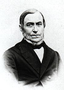 As file